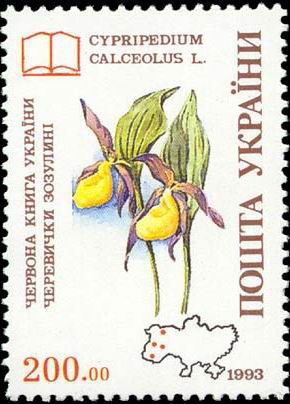 Stamp of Ukraine